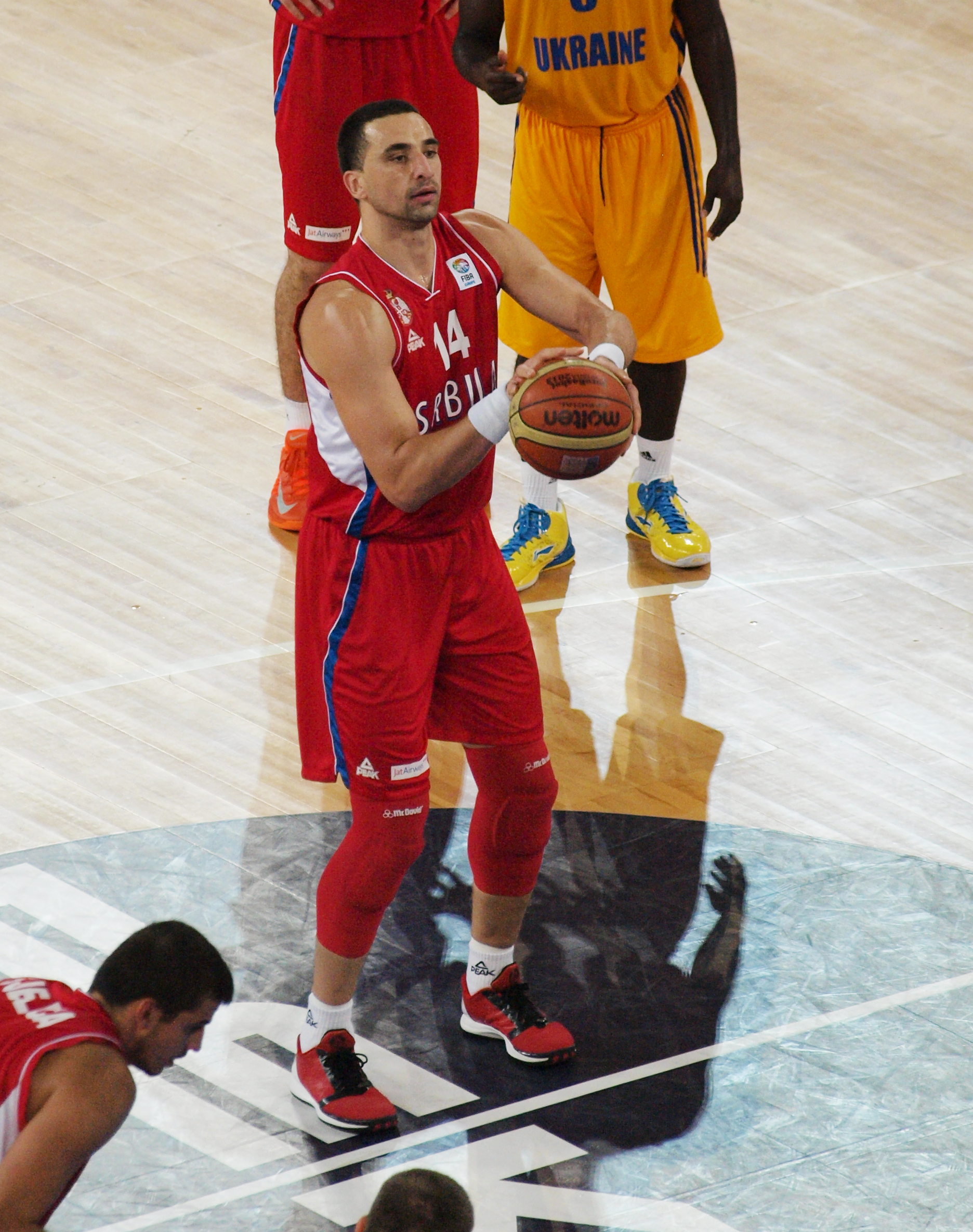 Raško Katić playing for Serbia on Eurobasket 2013.Српски (ћирилица): Рашко Катић на Еуробаскету 2013.